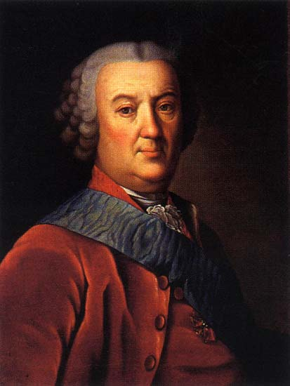 Portrait of russian admiral Ivan Talyzin